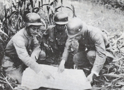 Officers of the Chinese 88th Division studying a map, Shanghai, China, Sep-Nov 1937; note Germany-supplied helmets